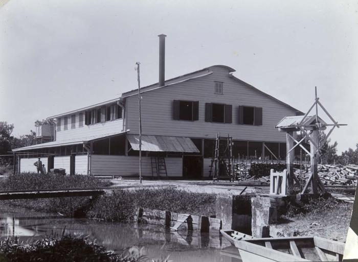 Coffee factory at the 'Peperpot' plantation